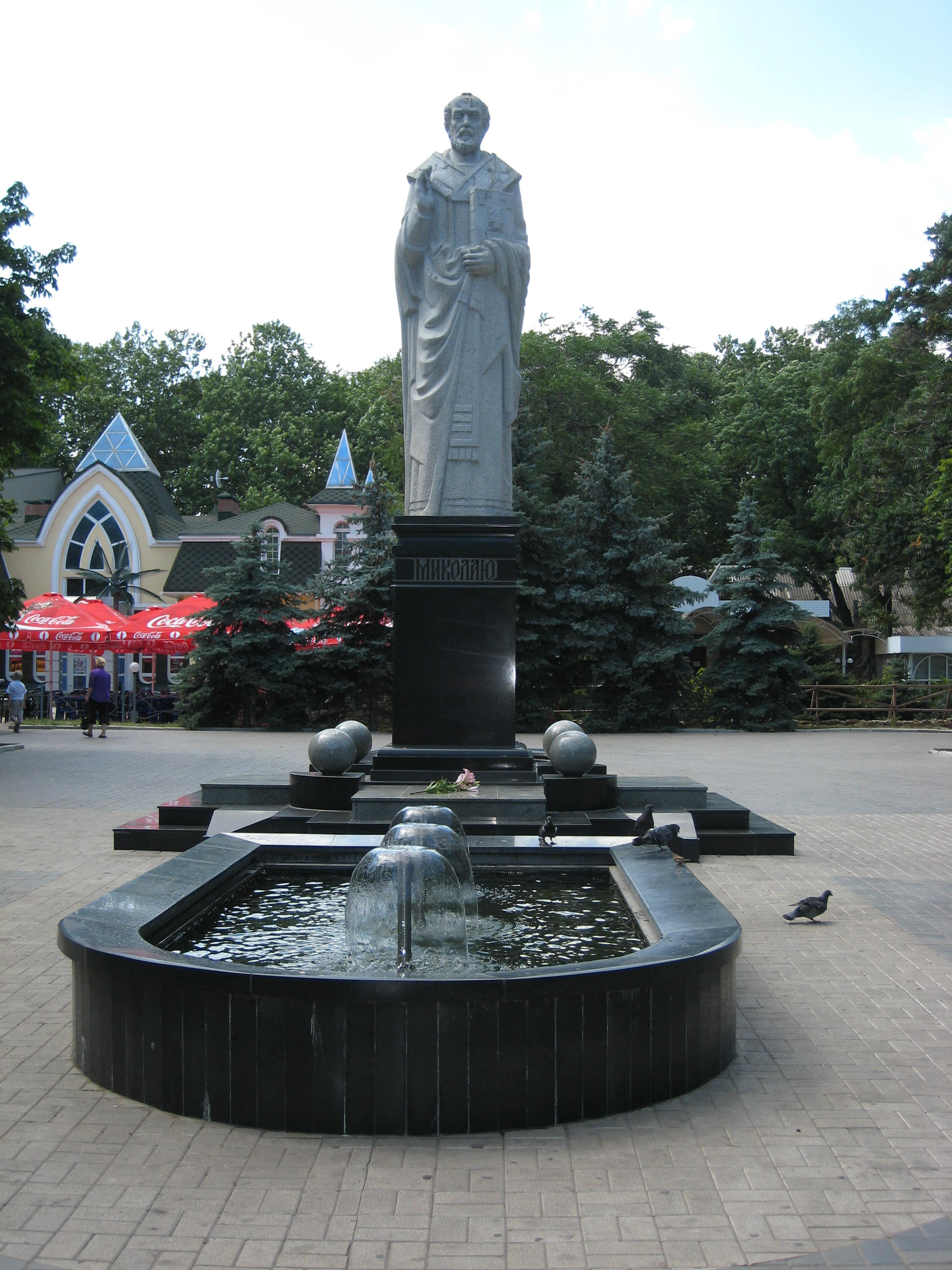 Saint Nicholas monument in Kashtanovyi Square, Sovetskaya St., Mykolaiv, Ukraine.